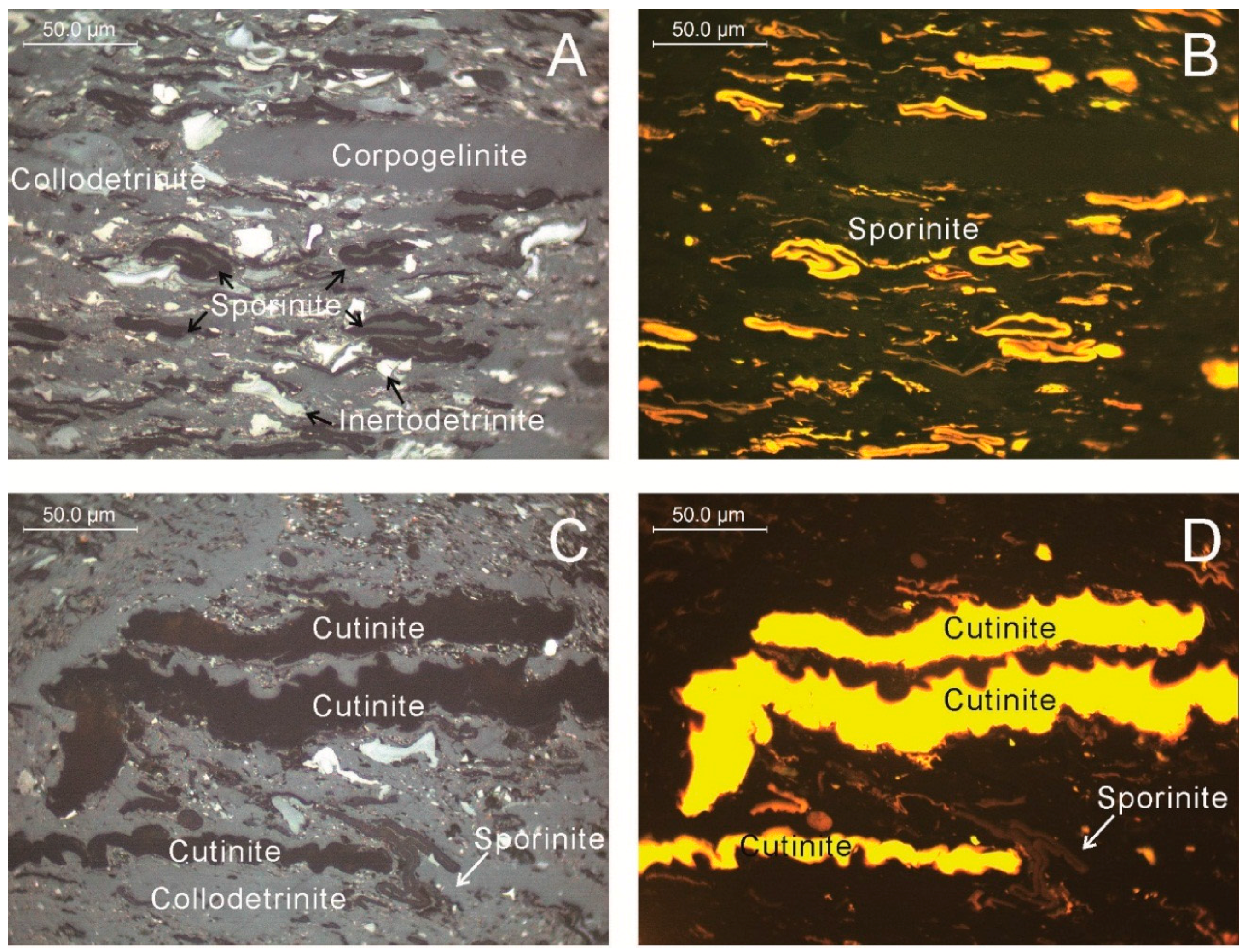 Original legend: Macerals in the Upper No. 3 coals. (A) Sporinite, corpogelinite, inertodetrinite, and colledetrinite (LBS3U-4); (B) Sporinite under fluorescent light (LBS3U-4); (C) Cutinite, sporinite, and colledetrinite (LBS3U-13); (D) Cutinite and sporinte under fluorescent light (LBS3U-13); A, C, are under oil reflectance white light.